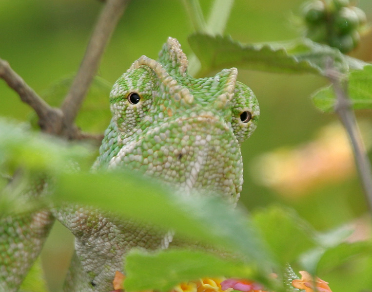 Indian Chameleon or South Asian Chamaeleon Chamaeleo zeylanicus in Keesara, Rangareddy district, Andhra Pradesh, India.